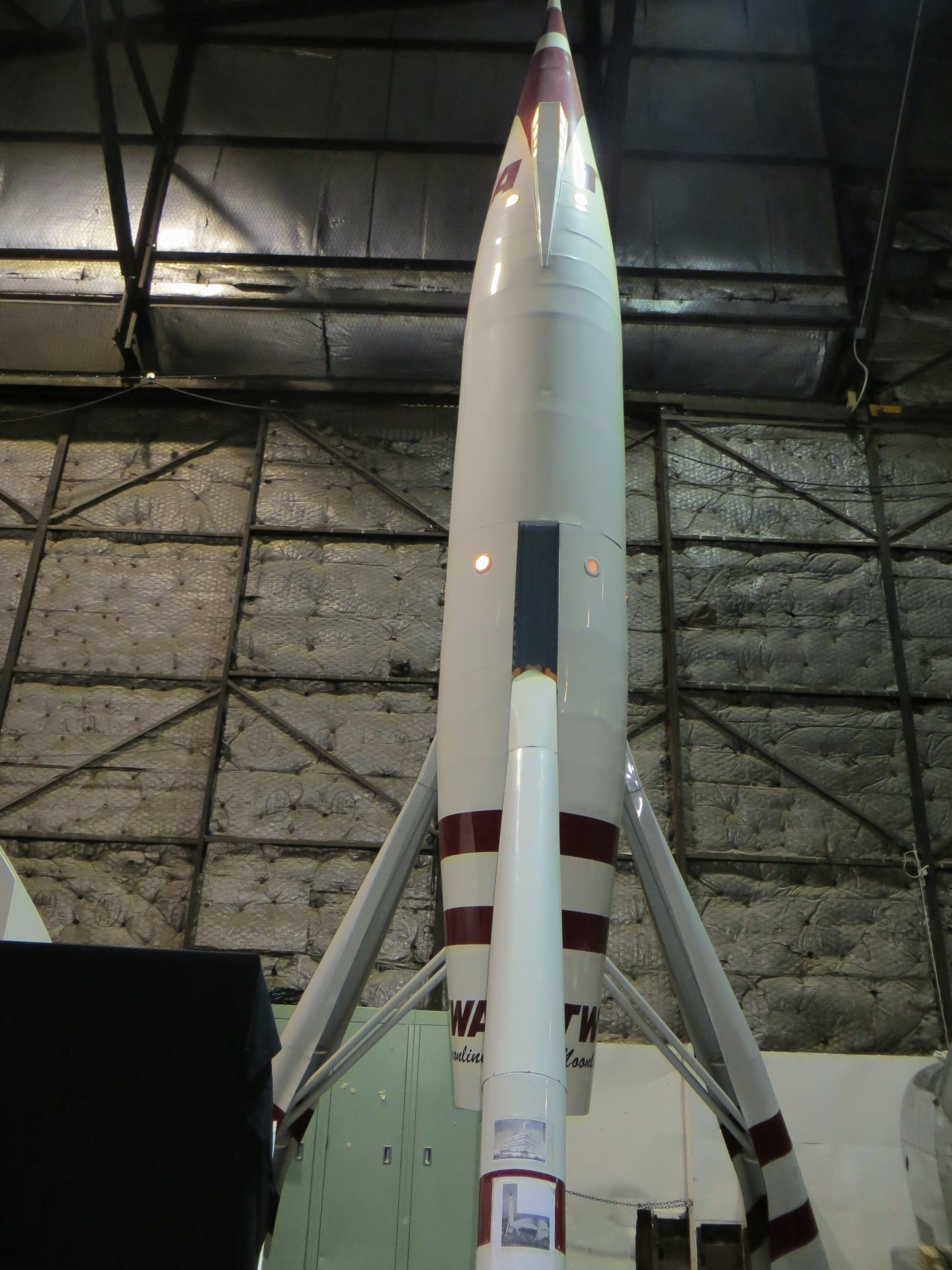 TWA's corporate "Moonliner II" replica at National Airline History Museum